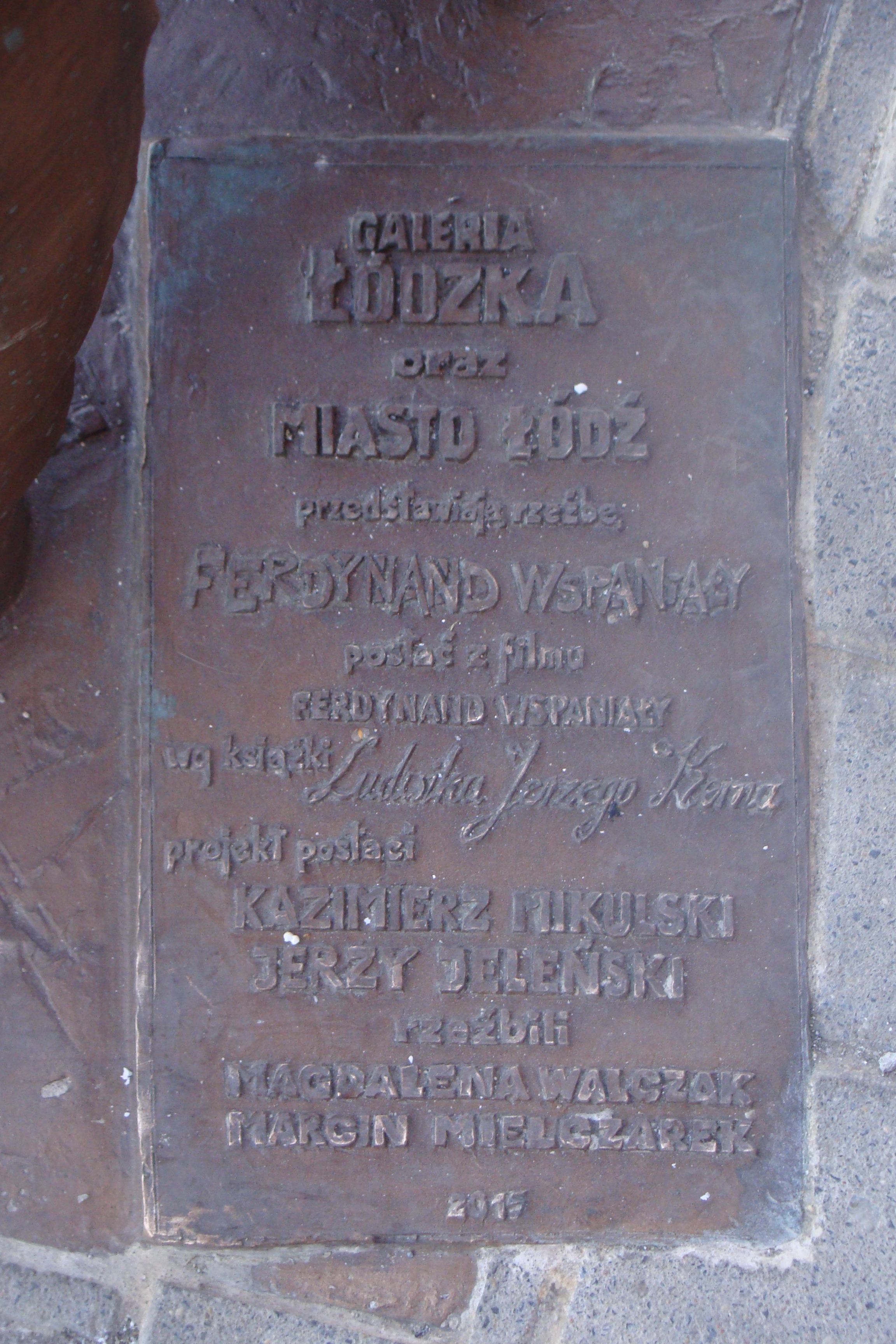 Ferdynand Wspaniały